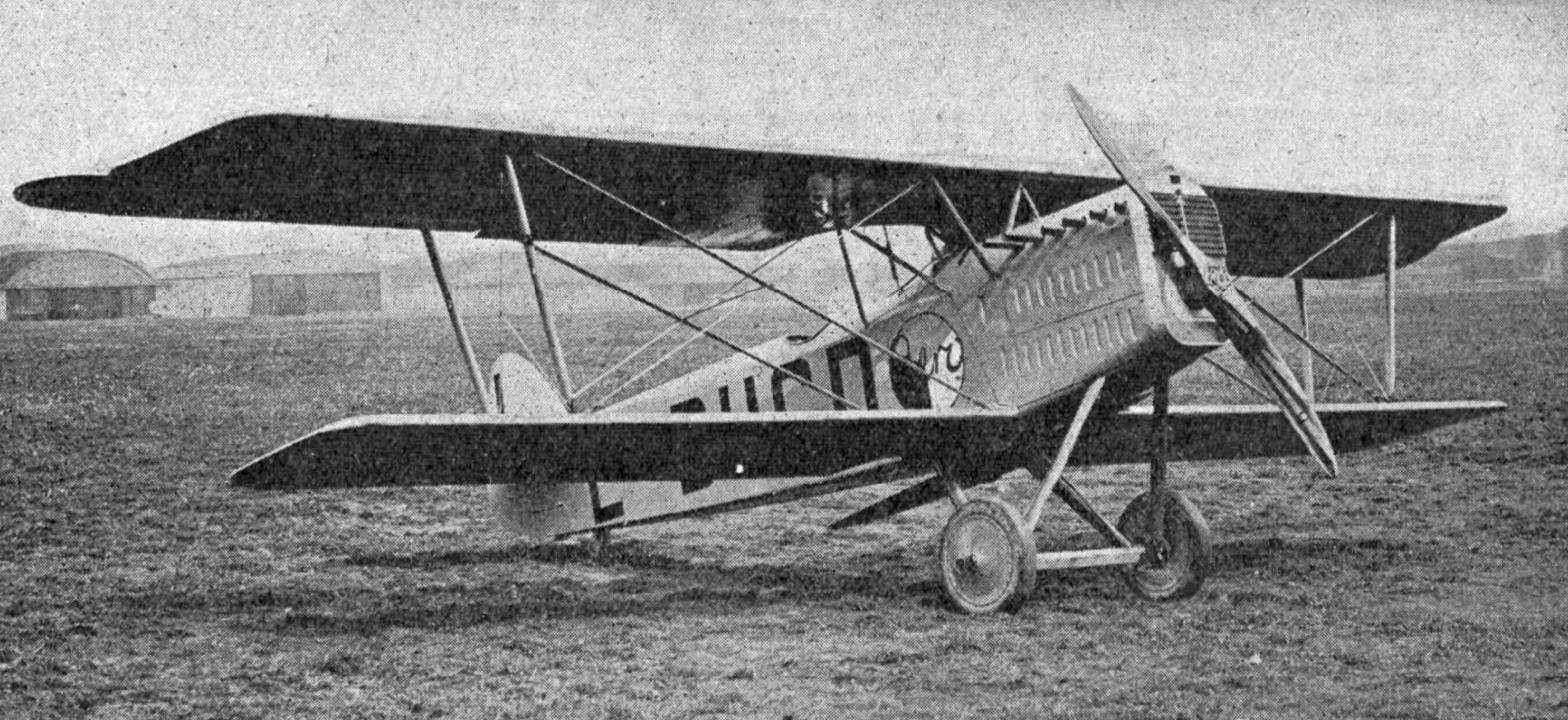 Aero Ab.11 photo from L'Aéronautique October,1926